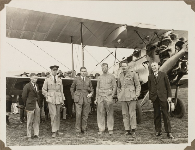 Photograph of C.W.A. Scott (Pilot) and Sir John Salmond after Salmond's tour of northern Australia advising the RAAF on Aerial defence standing in front of the Qantas DH.50J named "Hermes" registered G-AUHI